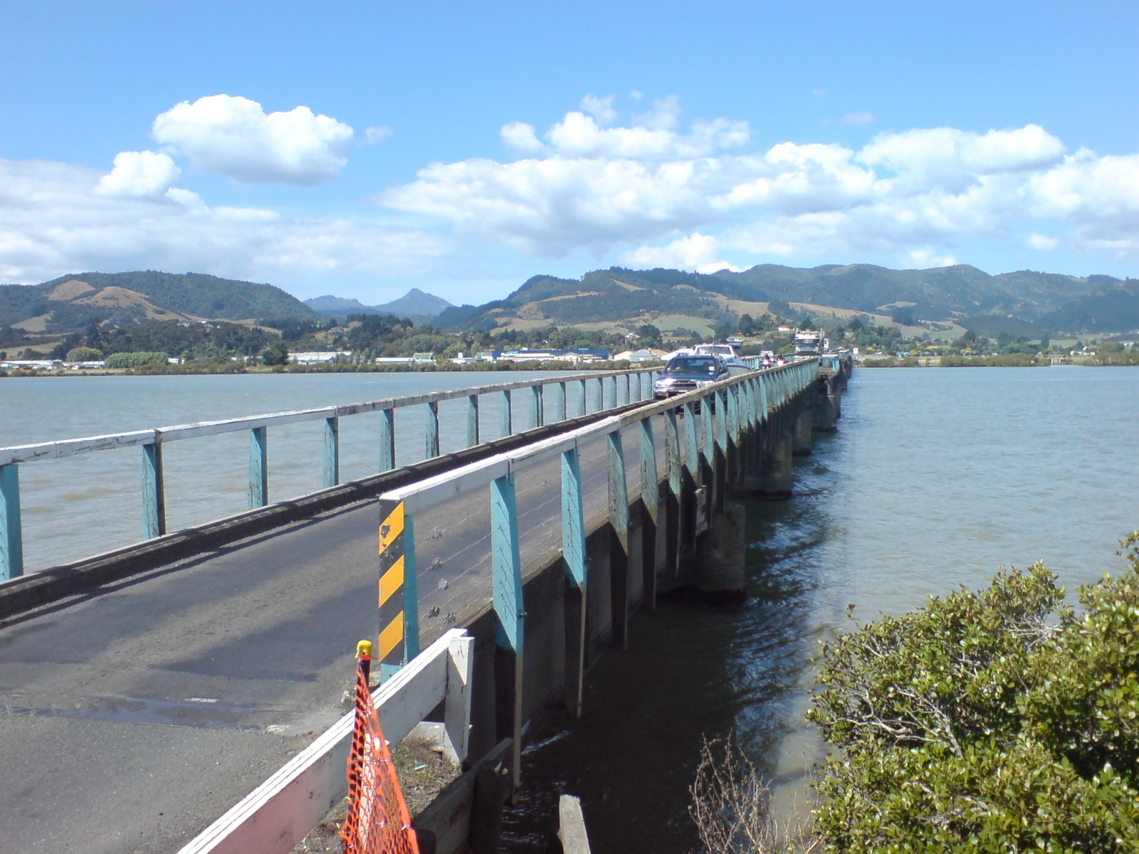 Kopu Bridge, near Thames, New Zealand. Looking eastwards as cars come across on the single-lane bridge known for its delays.